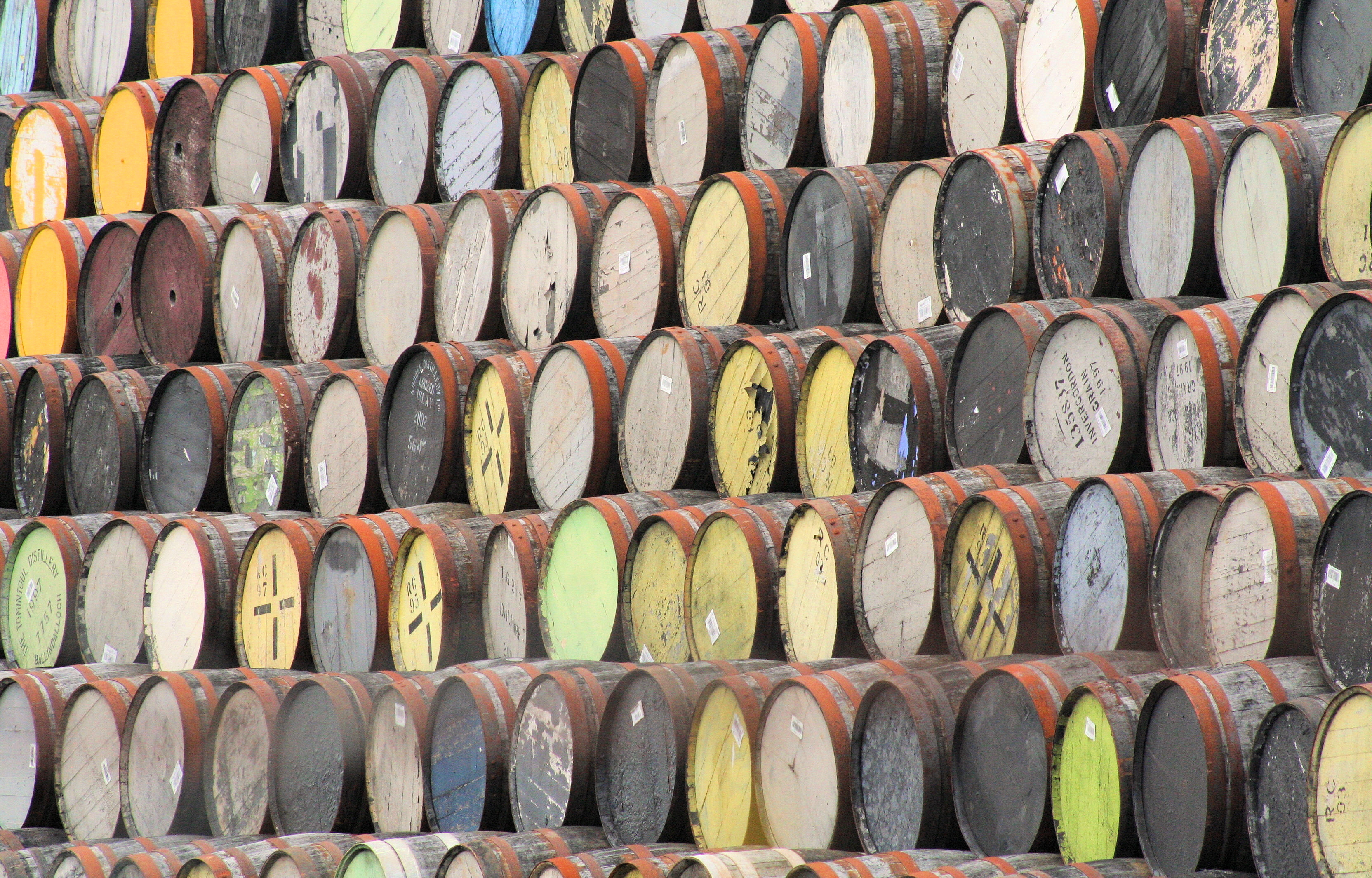 Empty oak barrels waiting to be filled with whisky at the White and MacKay distillery in Invergordon. The distillery is one of the largest in Scotland and produces grain whisky (from unmalted barley) that after maturation for several years in oak barrels is used in the production of blended whiskies.